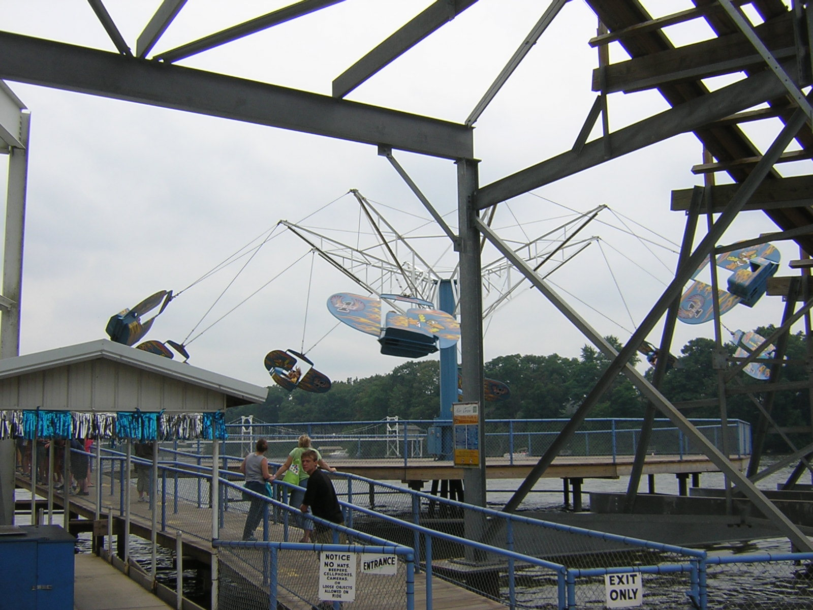 A scene from Indiana Beach, an amusement park located in Monticello, Indiana on Lake Shafer, a manmade lake on the Tippecanoe River.